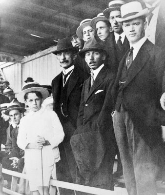 Santos Dumont in Curitiba, Parana, Brazil - 1916.